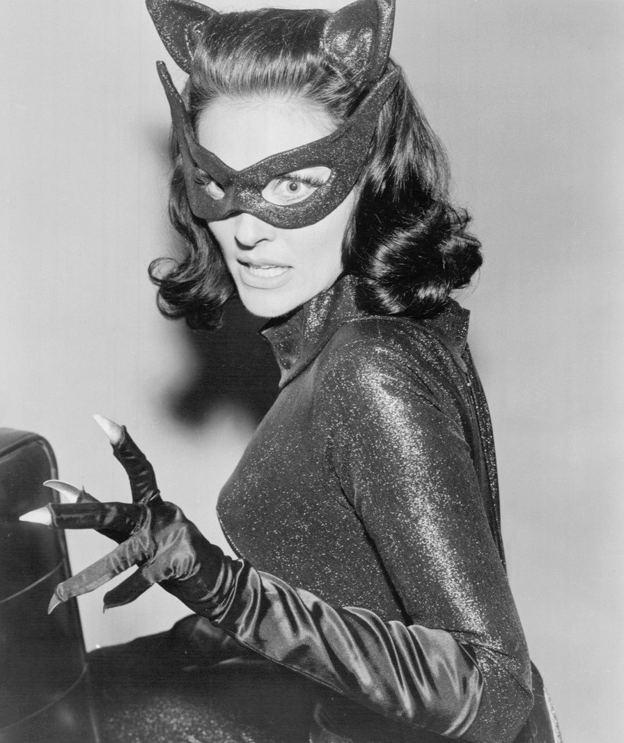 Photo of Lee Meriwether as Catwoman in Batman (1966 film). Julie Newmar originated the role in the television series, but had other commitments when the film was cast.